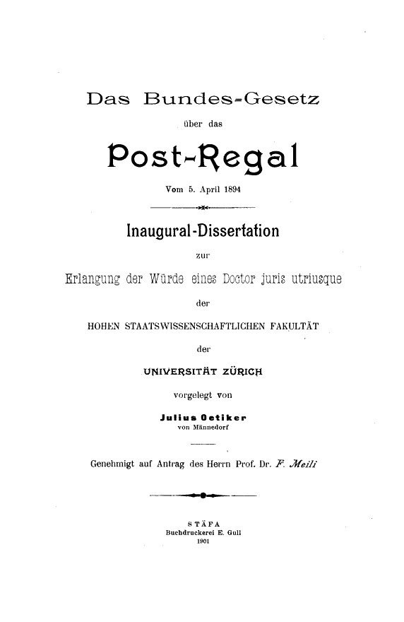 A book title page: Das Bundes-Gesetz über das Post-Regal. A dissertation by Julius Oetiker, University of Zurich, 1894. Published in 1901. Scanned by Google Books.